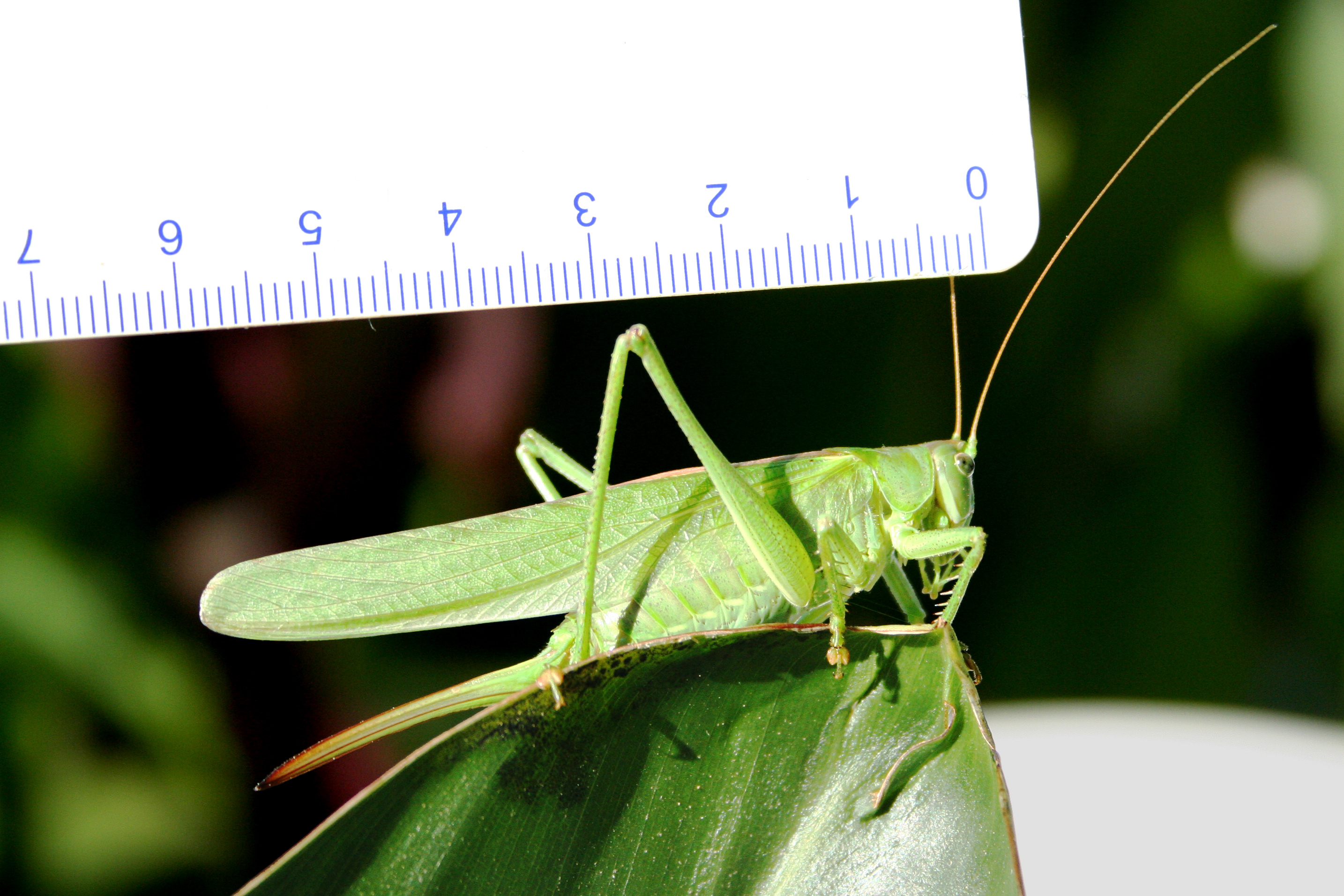 Tettigonia viridissima (locust) with ruler for size comparison